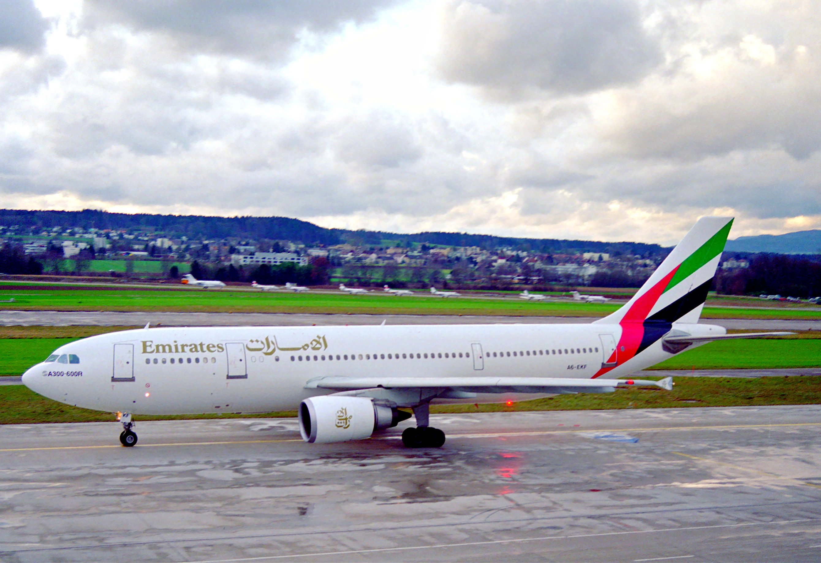 First flight: April 10, 1991...(c/n 608) 14/06/1991 Emirates A6-EKF 22/05/2001 Lufthansa D-AIAY stored 06/2009 04/08/2008 Mahan Air EX-35006 01/11/2009 Mahan Air EP-MNU